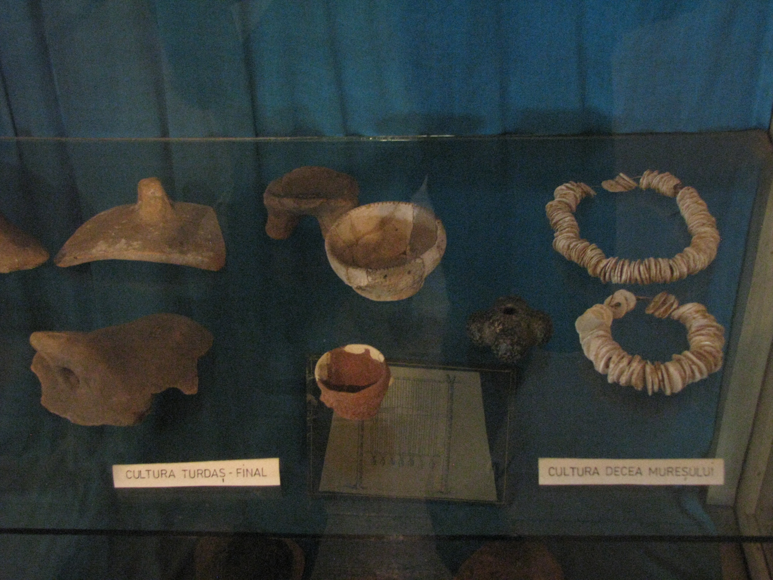 Aiud History Museum 2011